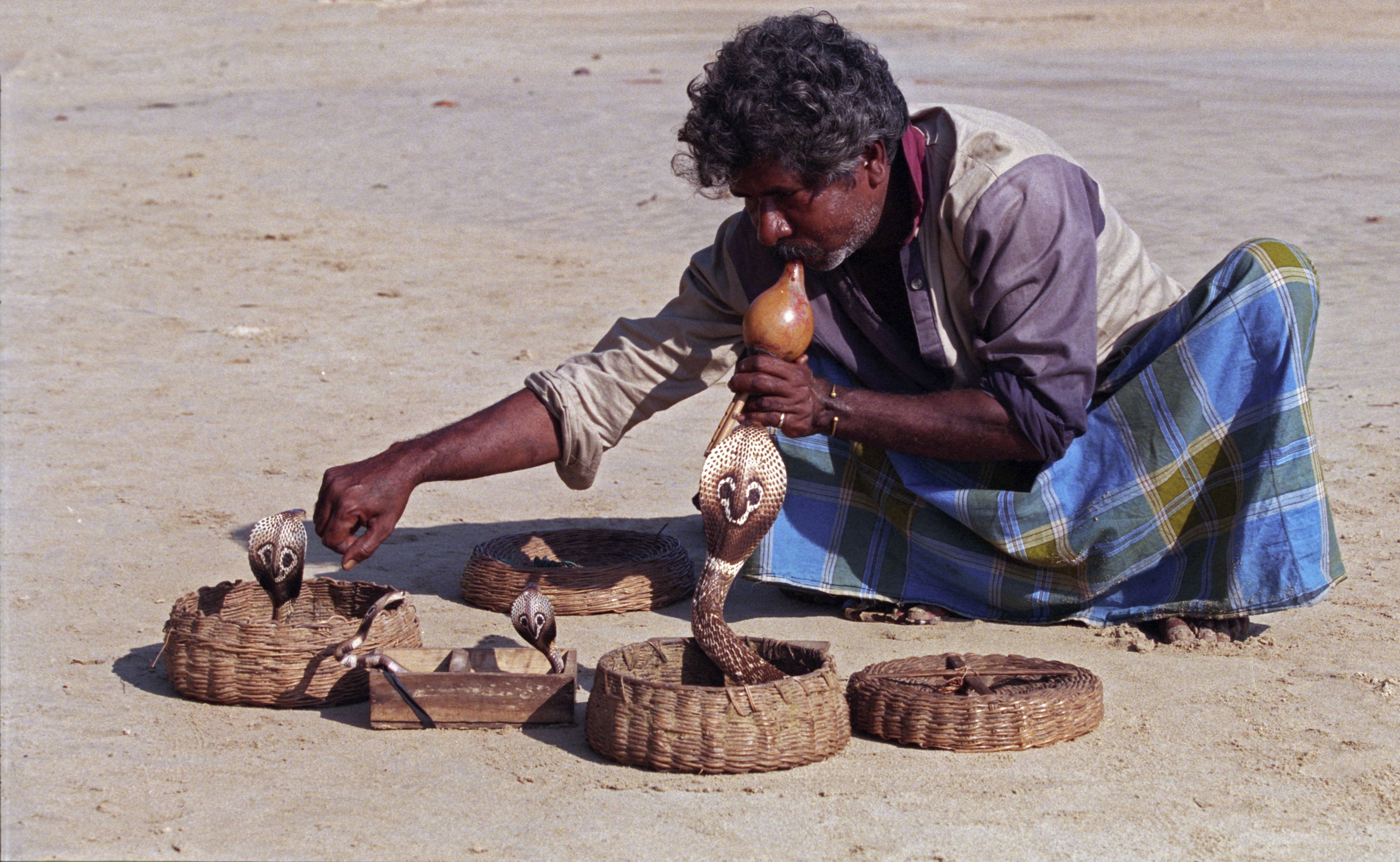 Snake charmer and cobras, Sri Lanka.